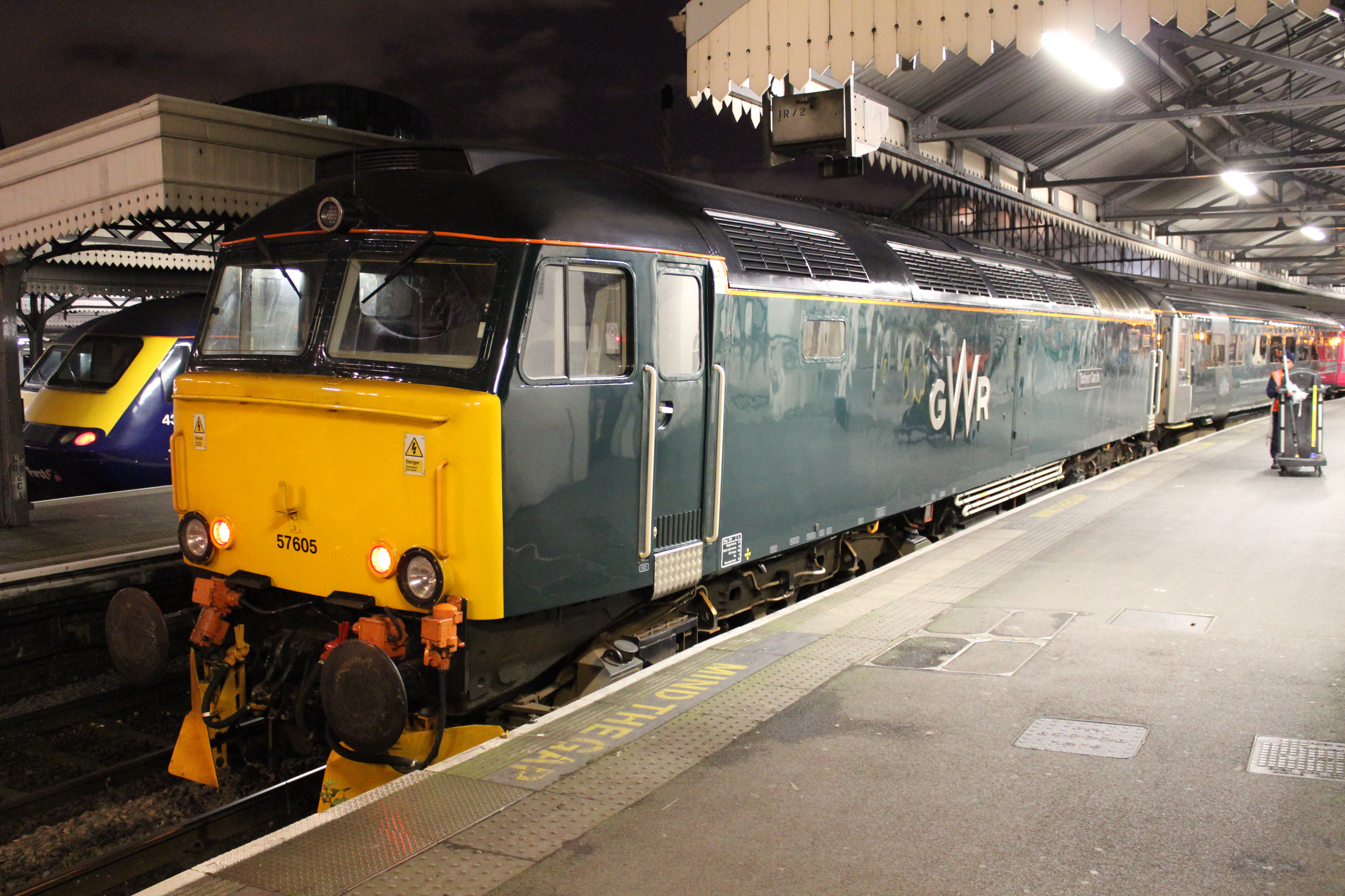 57605 (1C99) London Paddington to Penzance First Great Western Sleeper service sits in Platform One resplendant in its new livery